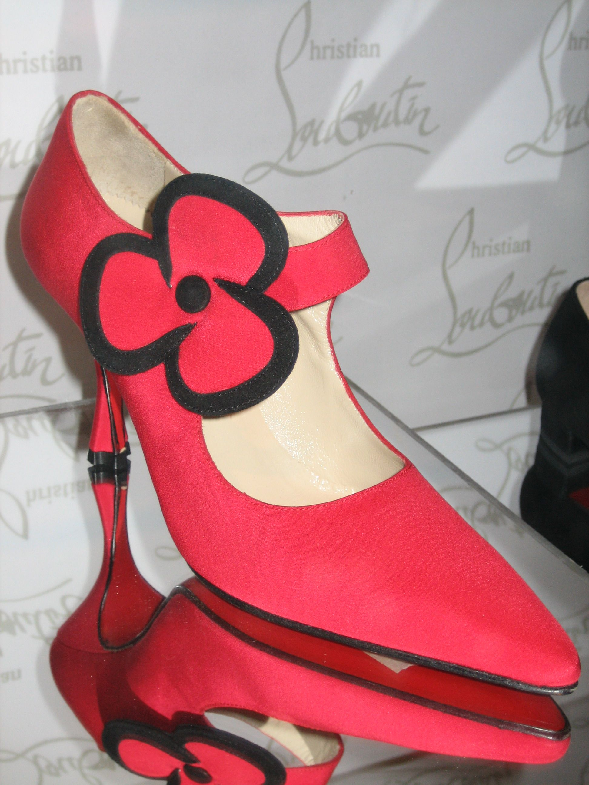 Christian Louboutin shoe at BATA Shoe Museum